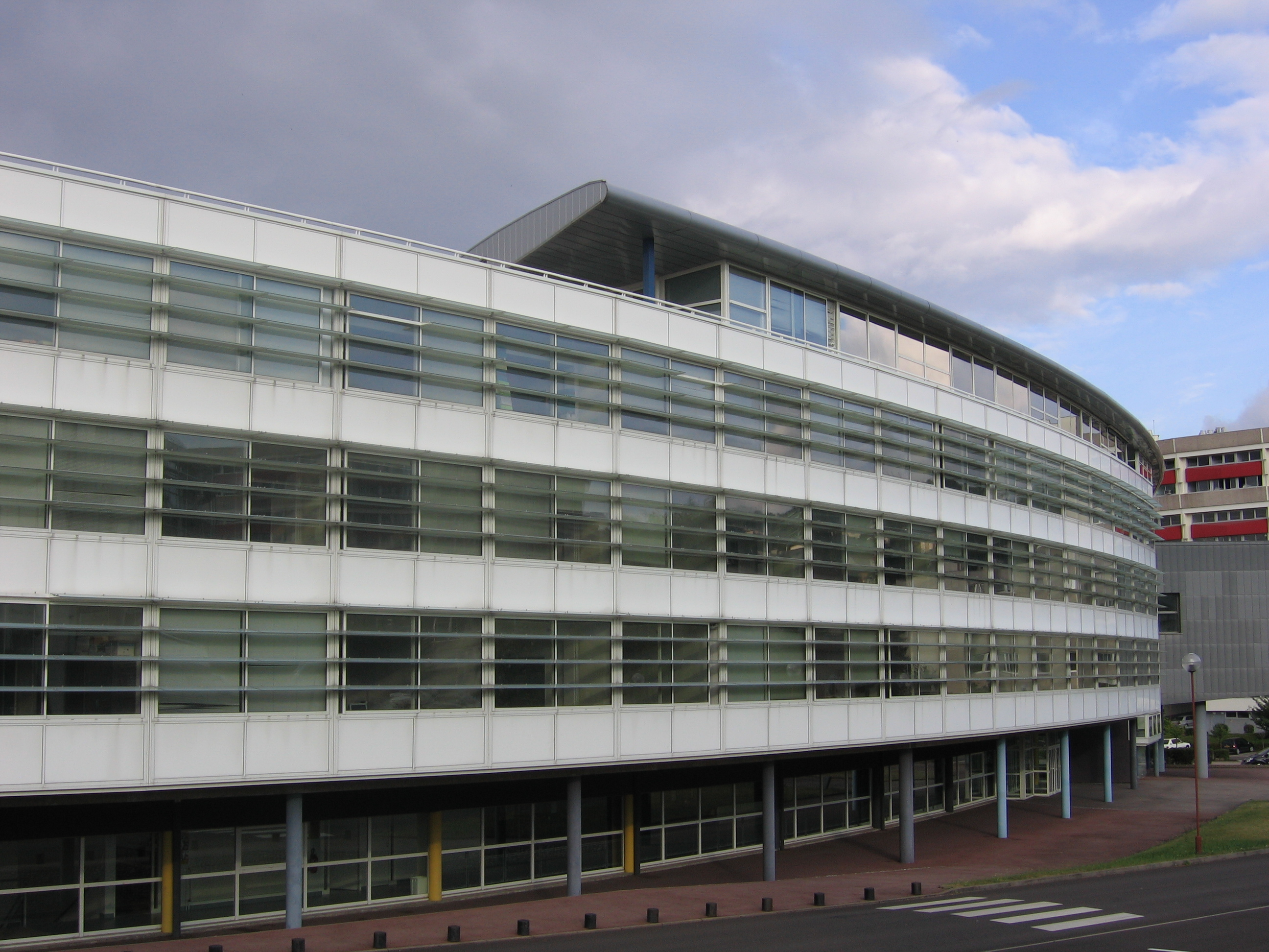 University of Nancy, France